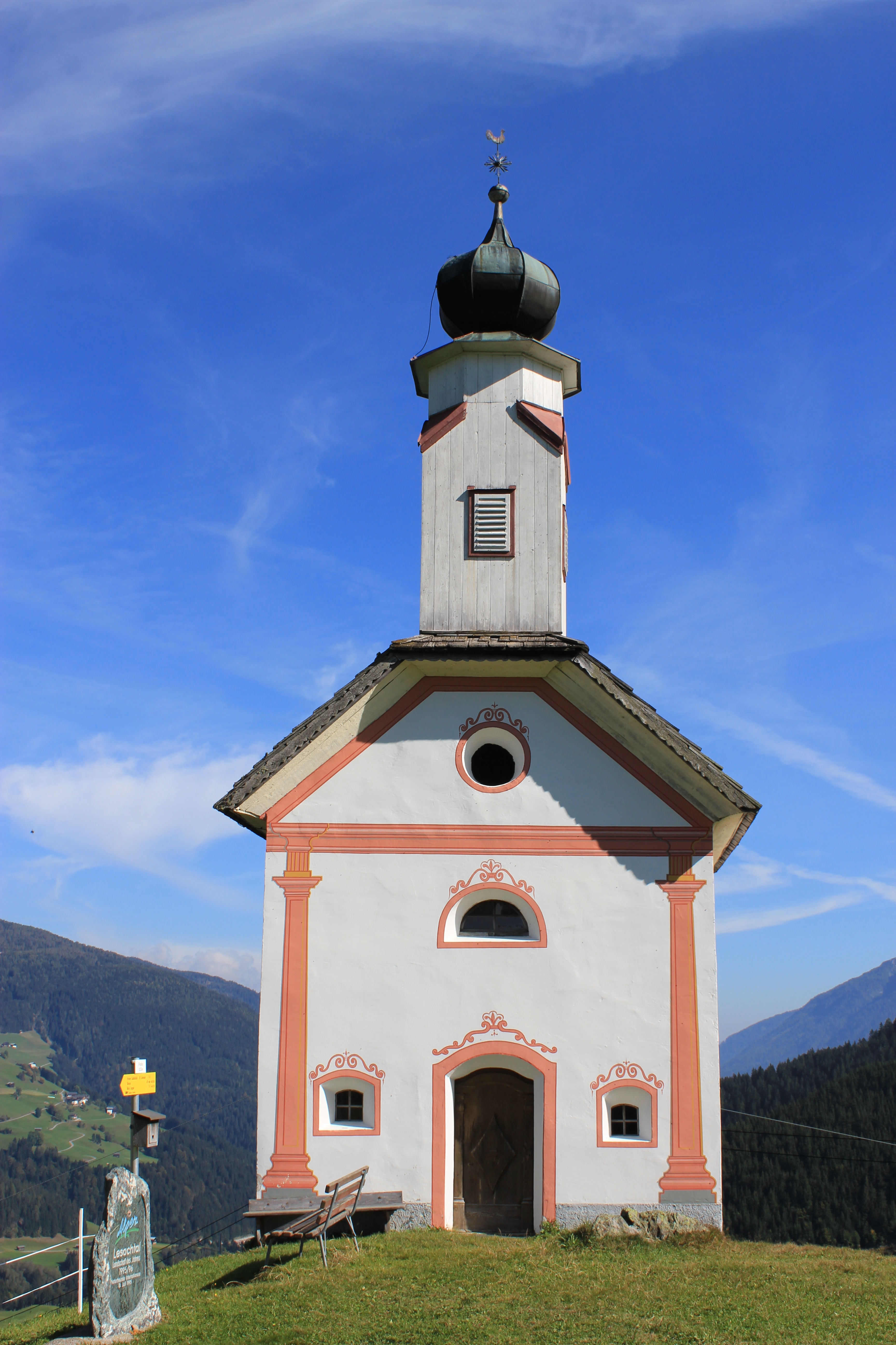 Chapell in Frohn in the community Lesachtal